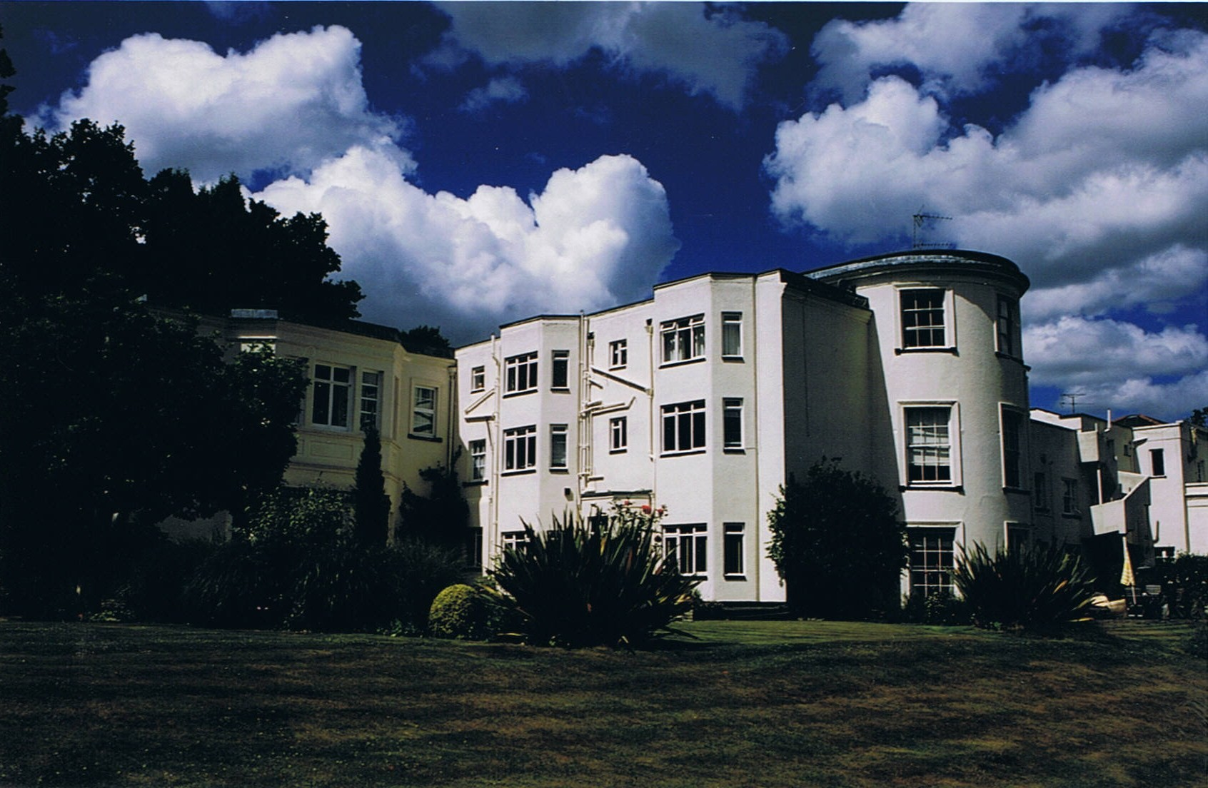 The southeast front of Dormy House on the Wentworth Estate (formerly Portnall Park, Virginia Water, Surrey, England, UK.